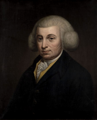 Charles O'Conor, O'Conor Don (Irish: Cathal Ó Conchubhair Donn; 1 January 1710 – 1 July 1791), also known as Charles O'Conor of Belanagare.